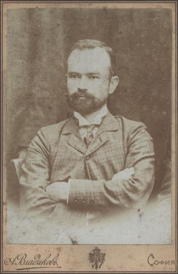 Portrait of the Bulgarian revolutionary Petar Vaskov (1875-1907), Photo office A. Vladikoff, Sofia